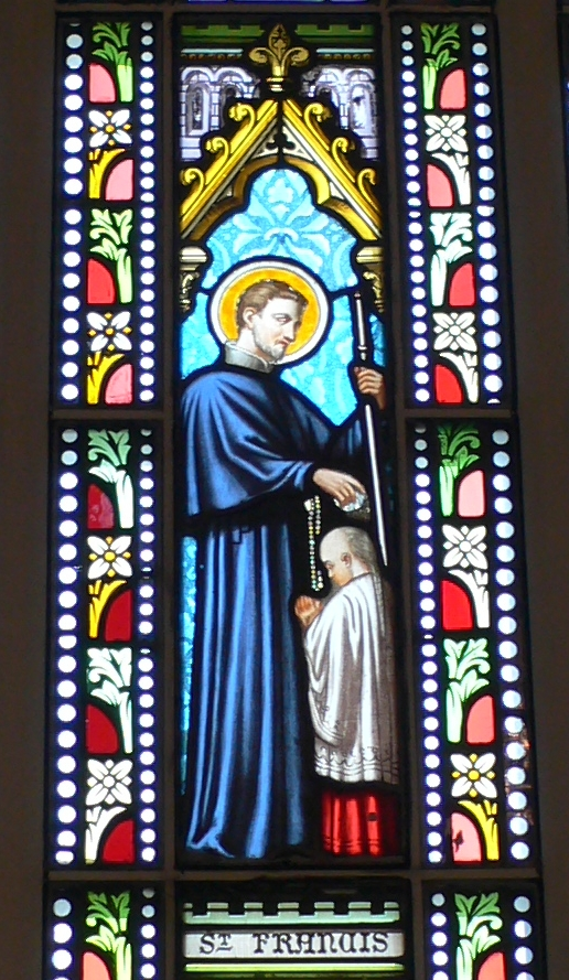 A stained glass window featuring the moment that St Francis of Xaxier baptizing a Chinese. (Photo taken in Béthanie, Hong Kong)